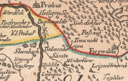 Crop from the map Image:Priebussischer Creis nebst Herrschaft Muska.png.